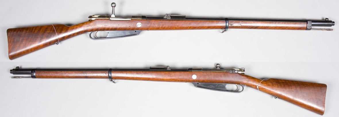 Infanteriegewehr Model 1888, Germany. Caliber 7.92mm. From the collections of Armémuseum (Swedish Army Museum), Stockholm.